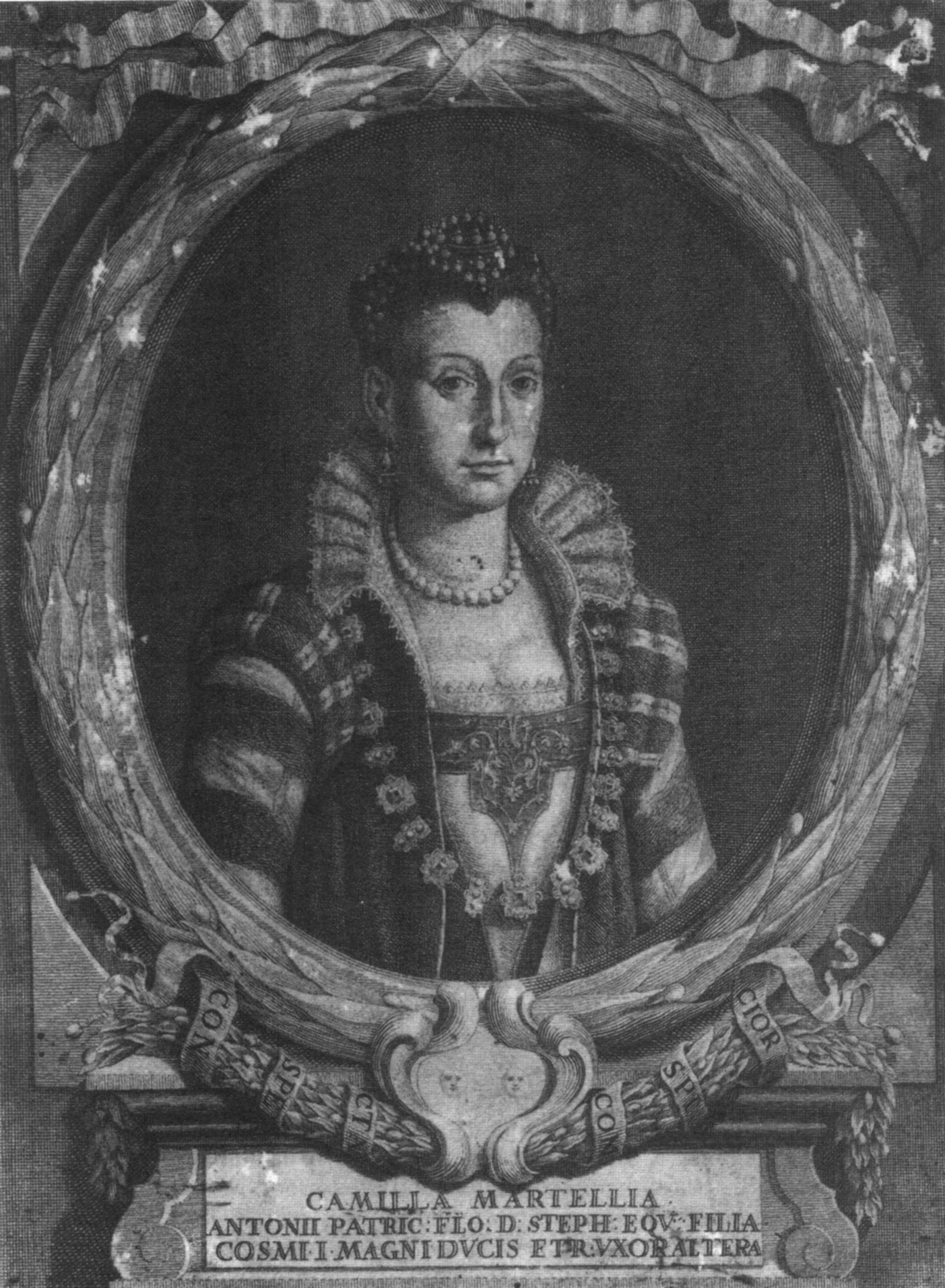 Portrait of Camilla Martelli (1545-1590)